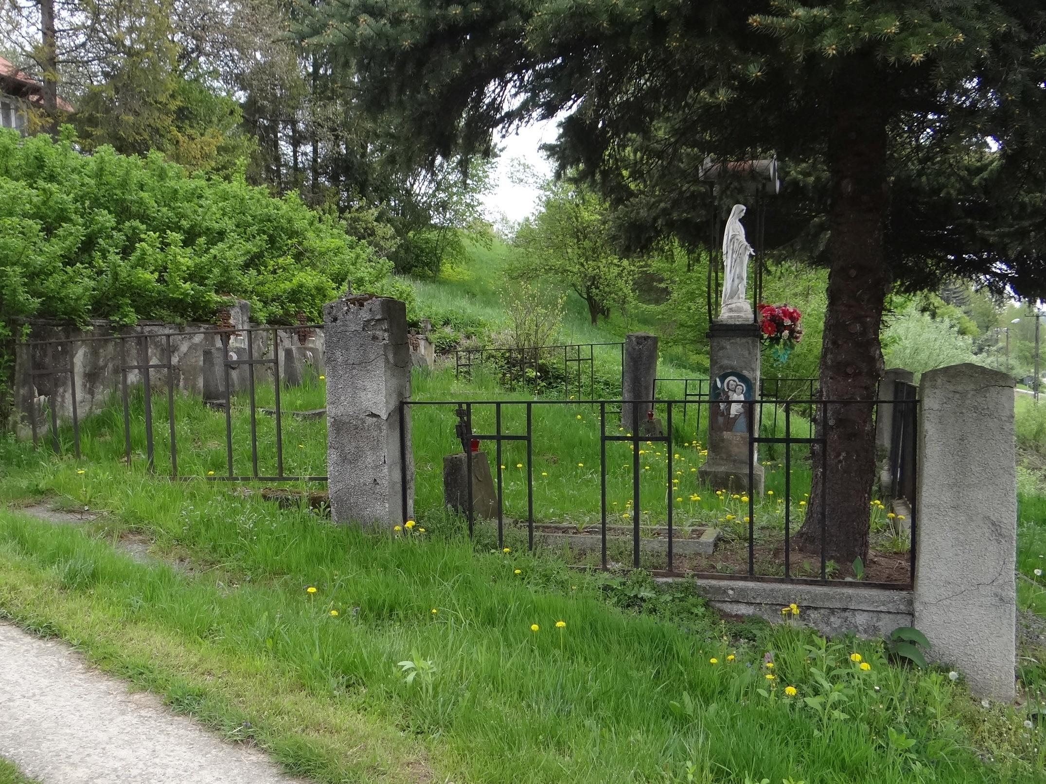 World War I Cemetery nr 152 in Siedliska